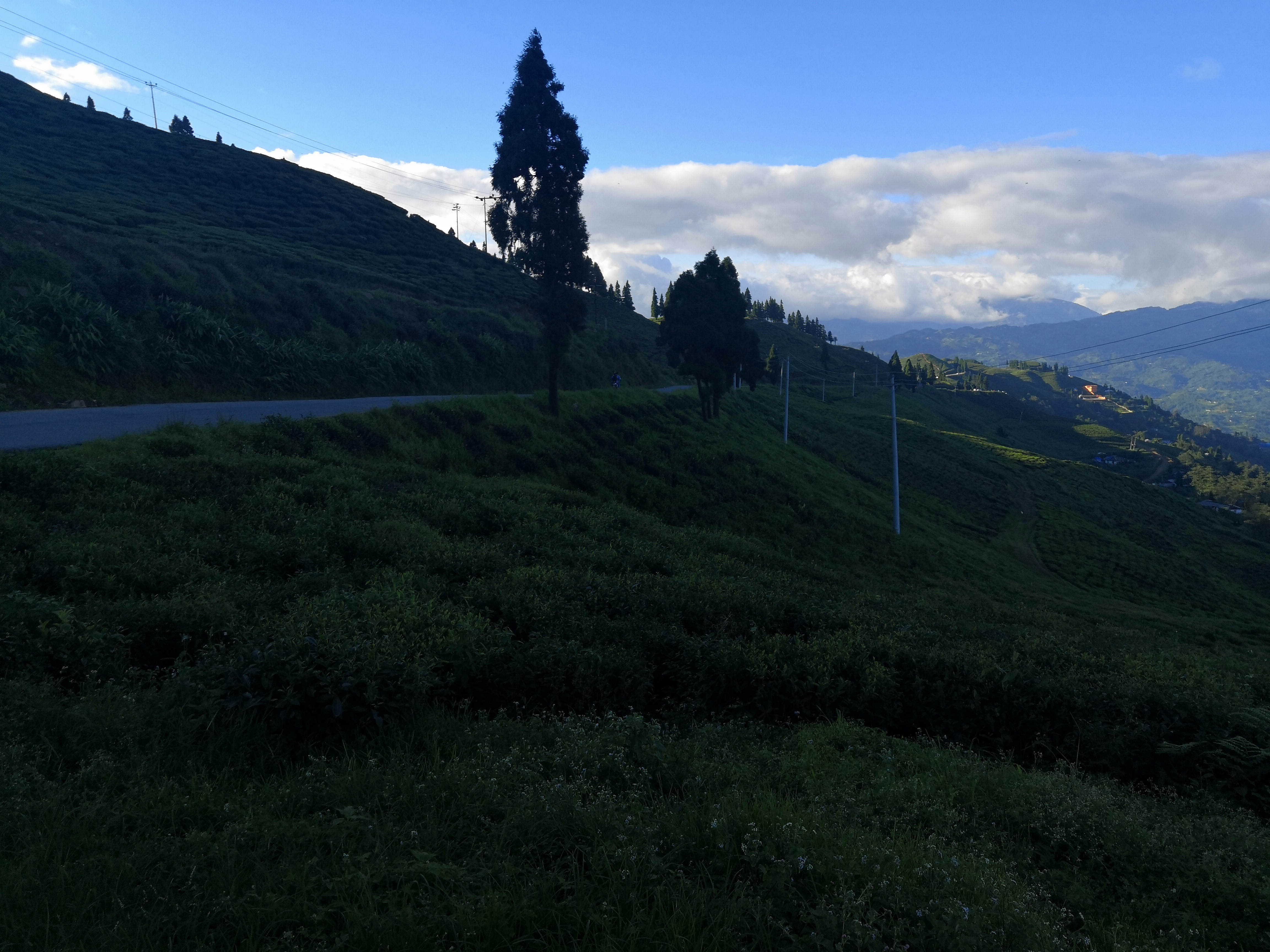 Kanyam=Ilam=Kanyam